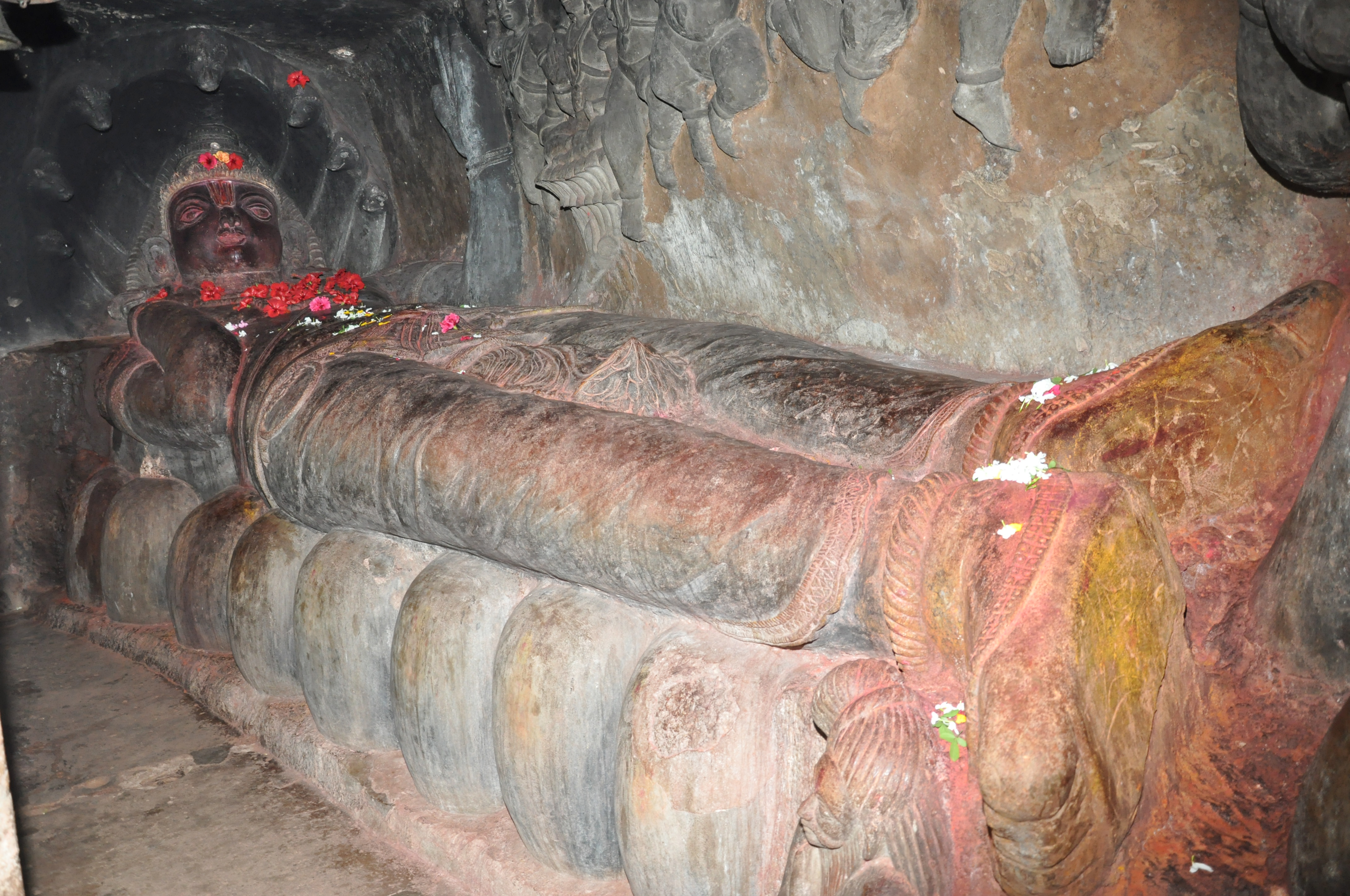 statue of Lord Vishnu in a reclining posture sculpted from a single block of granite inside the second floor